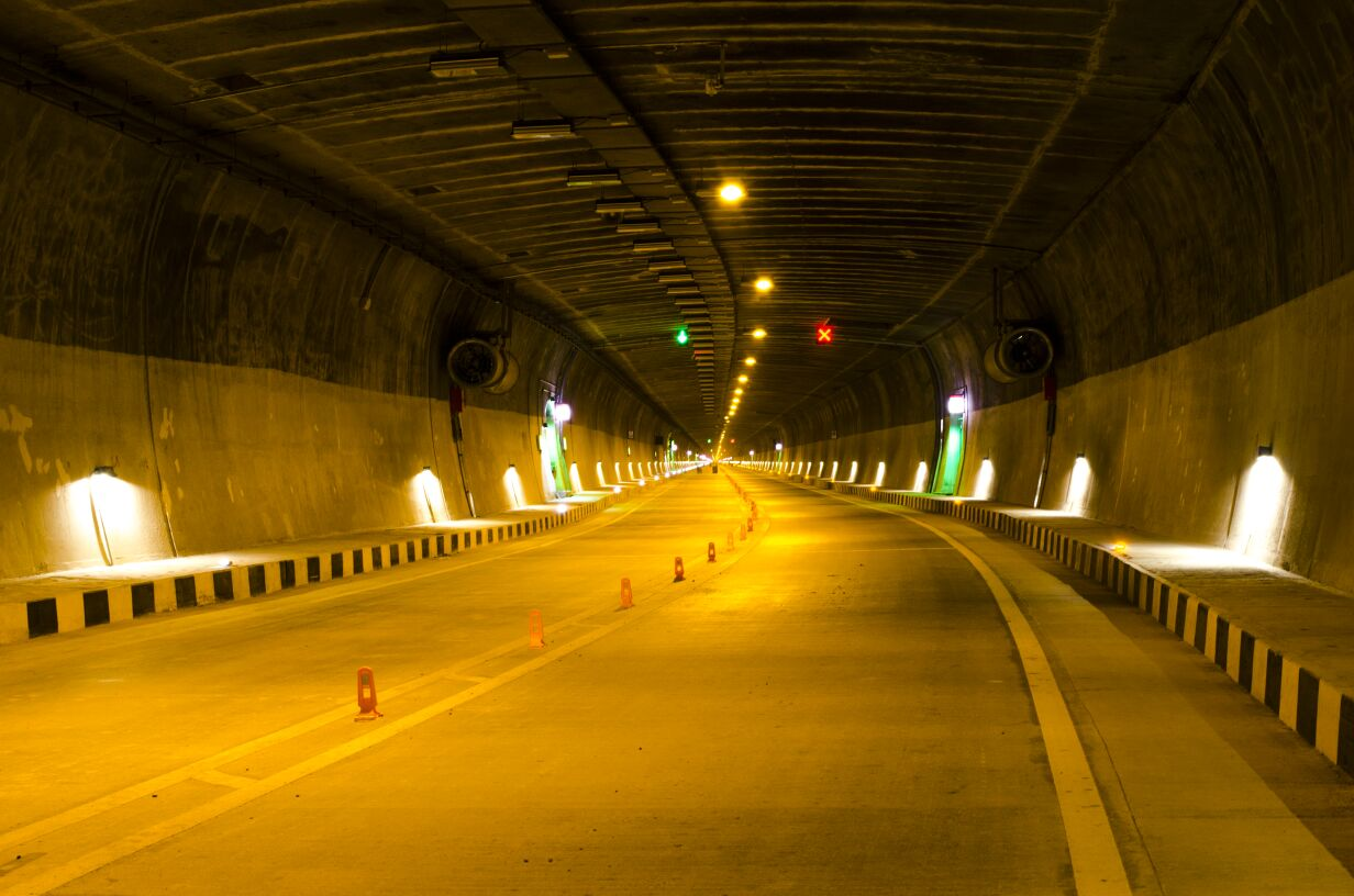 A night view of Chenani-Nashri Highway Tunnel, Jammu Kashmir